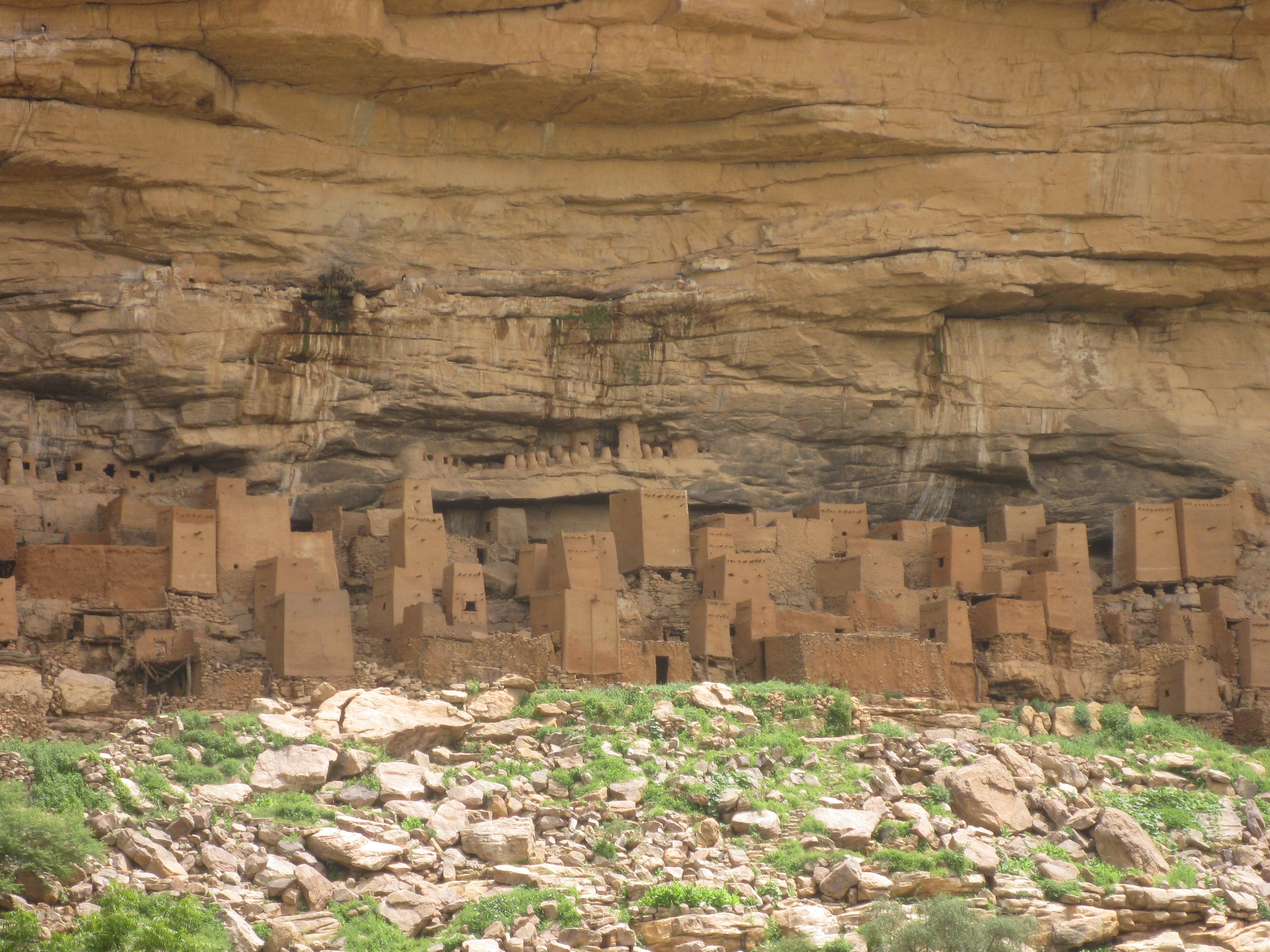 Dogon houses from the XIV century. UNESCO